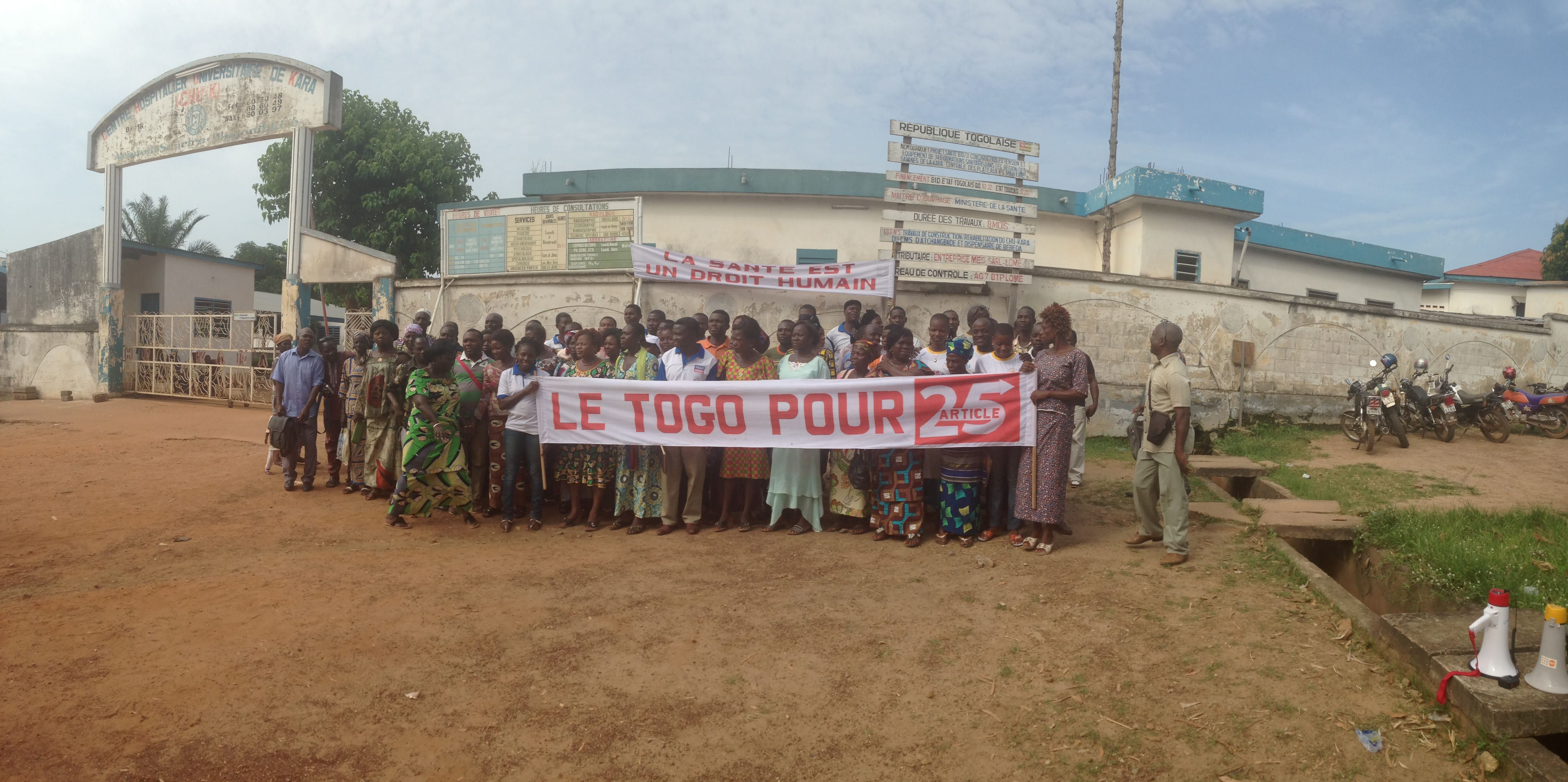 AED and a network of NGOs in Togo hosted a demonstration this morning in front of the regional hospital in Kara.